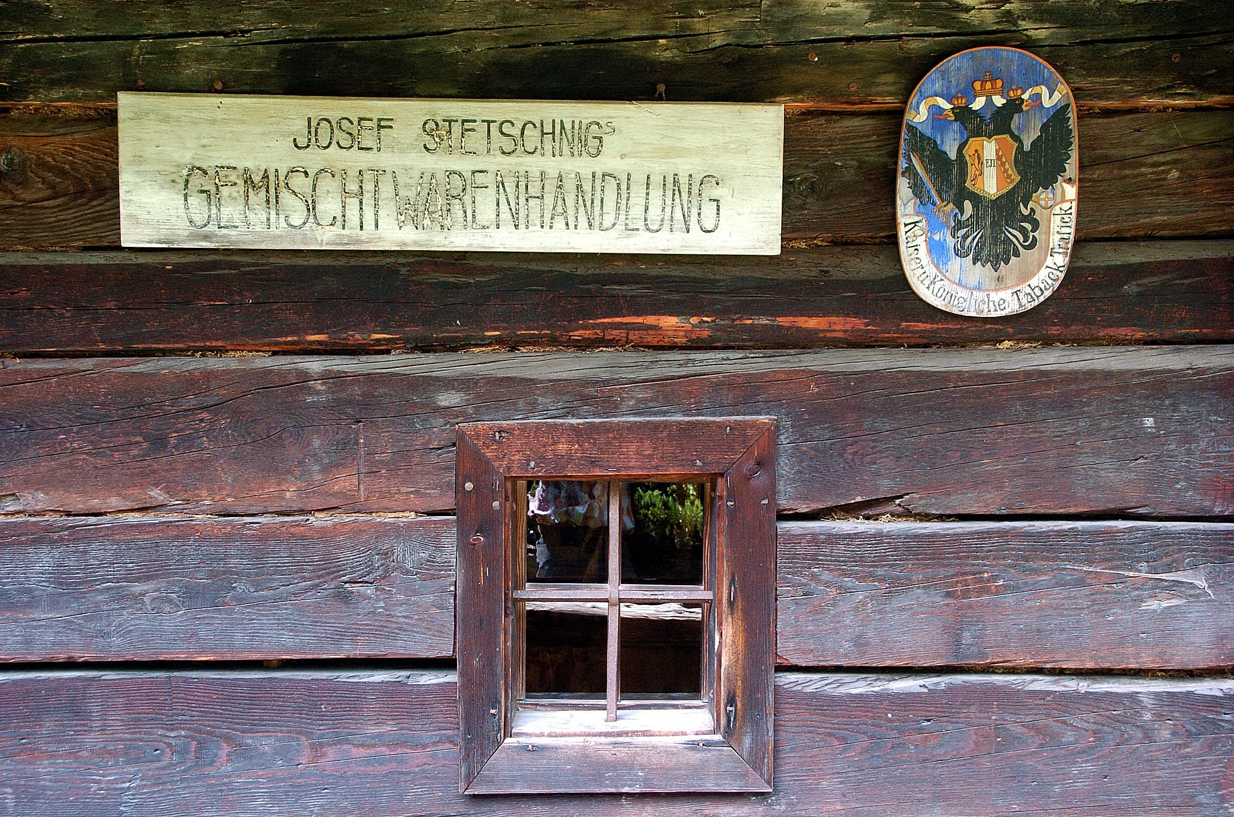 Window of a historic general store (Urch house), open air museum, market town Maria Saal, district Klagenfurt Land, Carinthia, Austria, EU